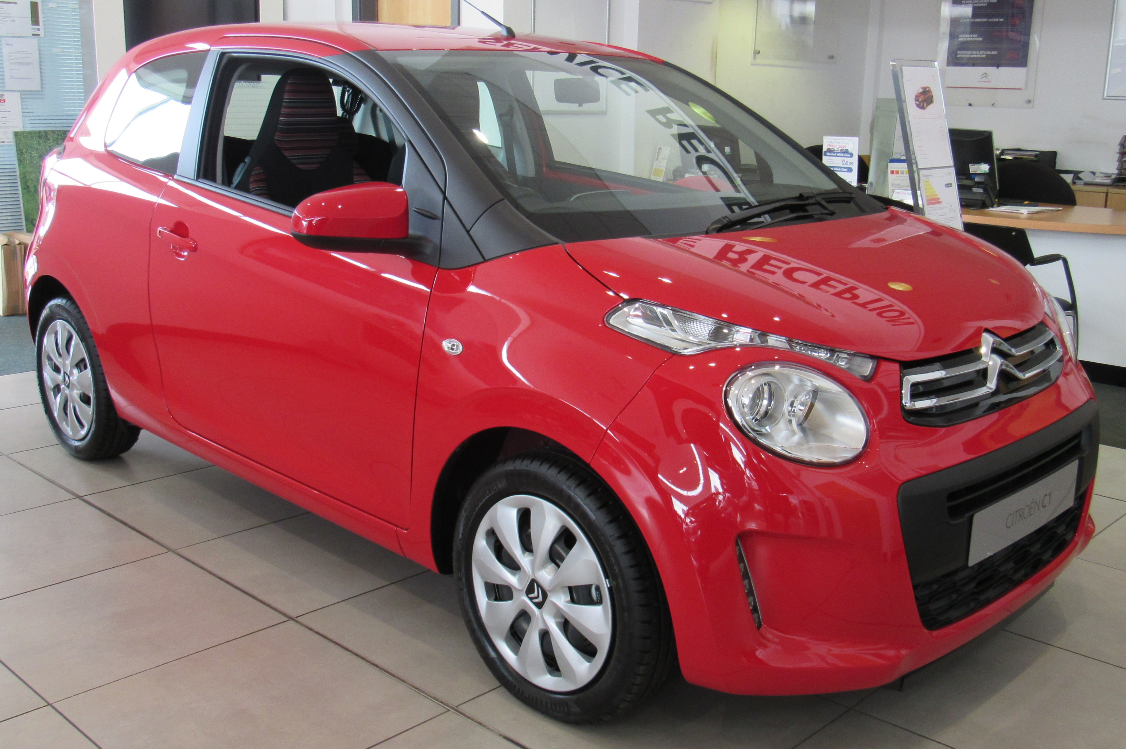 2017 Citroen C1 VTi 1.0 Taken in Leamington Spa